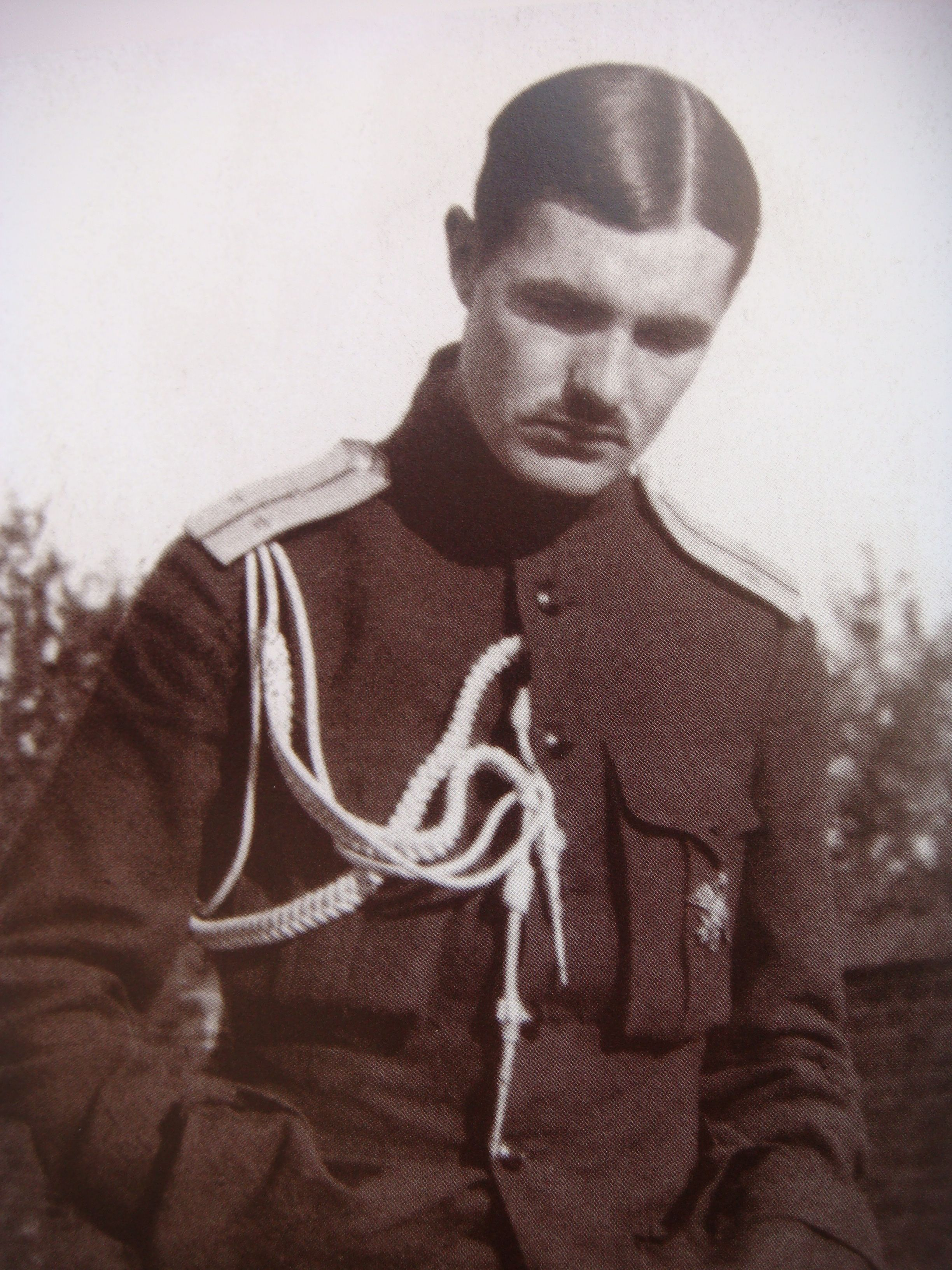 Photo of Georg Elfvengren, was a Finnish officer of the Russian Imperial Guard during the First World War and a noted commander of the Finnish Civil War and Heimosodat, who sympathized with the Russian White movement and fought against Finnish and Russian Red Guards on the Karelian Isthmus on both sides of the Finland-Russia border. From November 1919 to May 1920 he was the chairman of the governing council of the Republic of North Ingria. He was executed by shooting in Moscow in 1927.